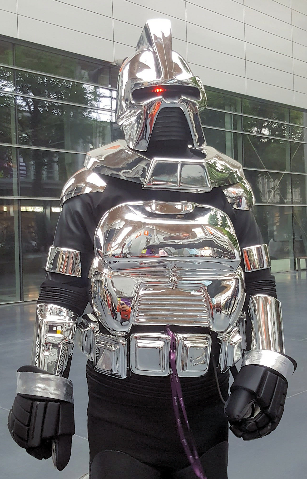 Cylon (Battlestar Galactica), Multigenre Fan Convention Pyrkon 2017 in Poznań, Poland